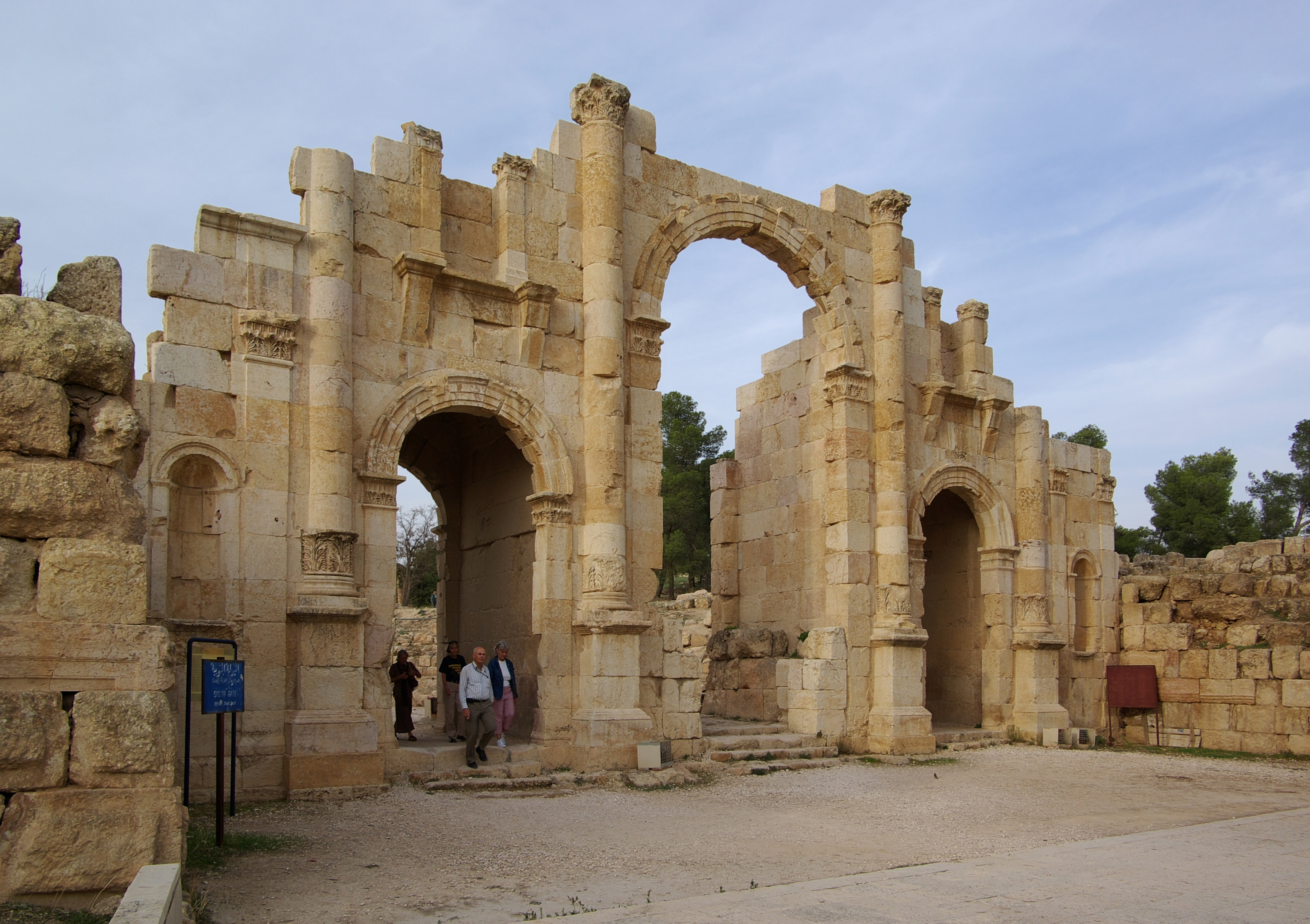 Jerash, Jordan, the South gate